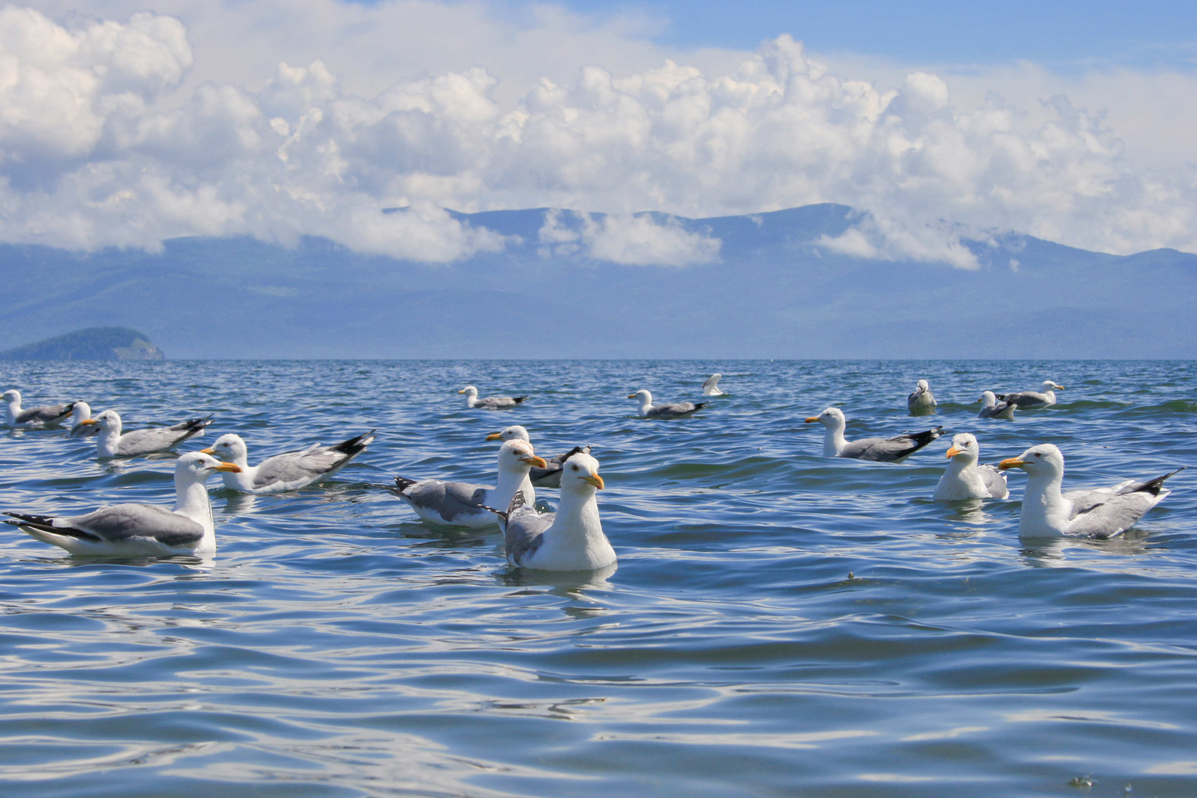 Larus vegae mongolicus, Lake Baikal, Russia